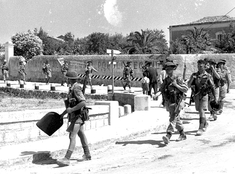 Troops of The Loyal Edmonton Regiment entered Modica marching in a relaxed manner, but rifles are close to hand and bayonets are fixed, ready for sudden action.